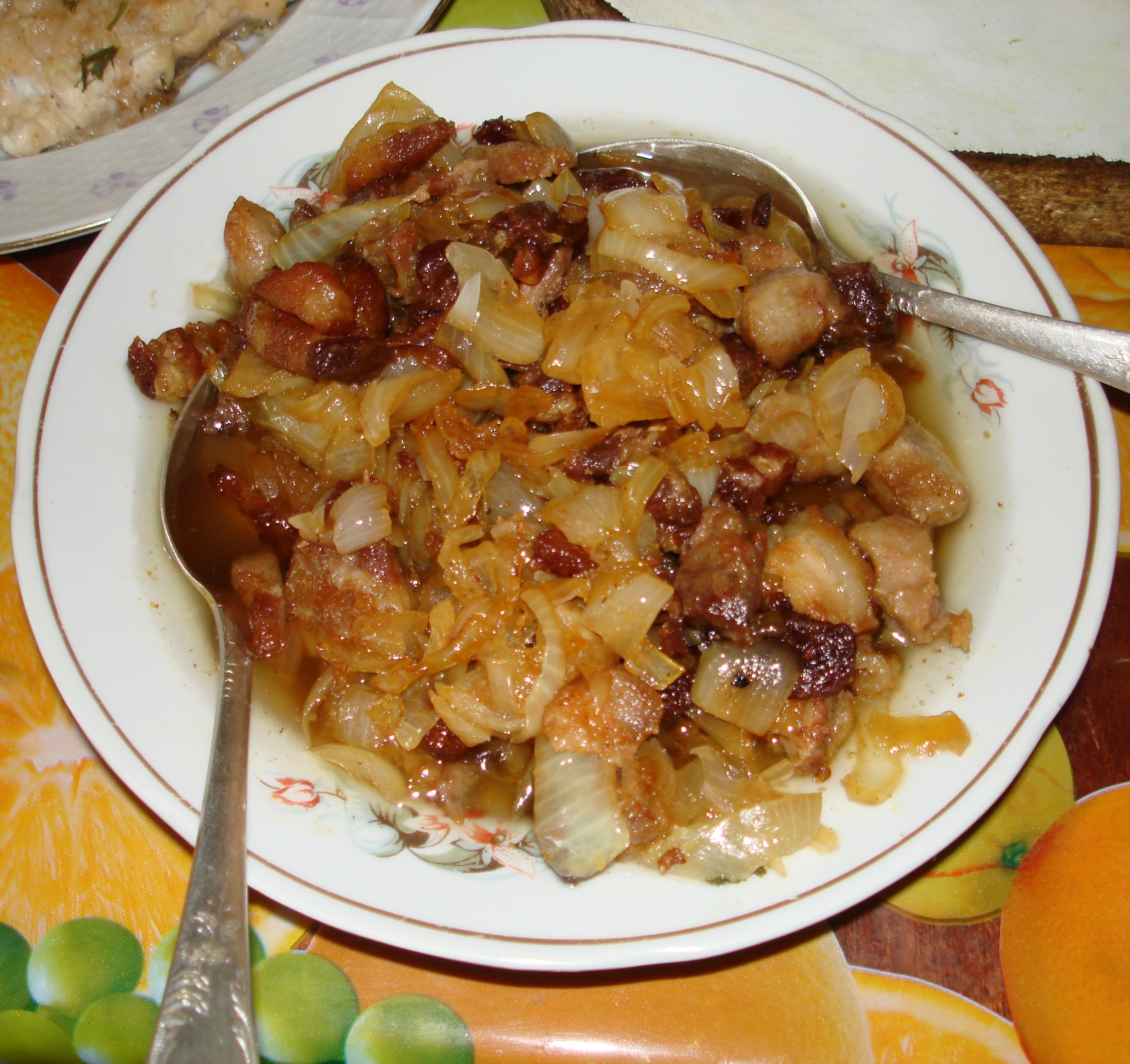 Cracklings